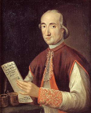 Girolamo della Porta, cardinal of the Roman Catholic Church